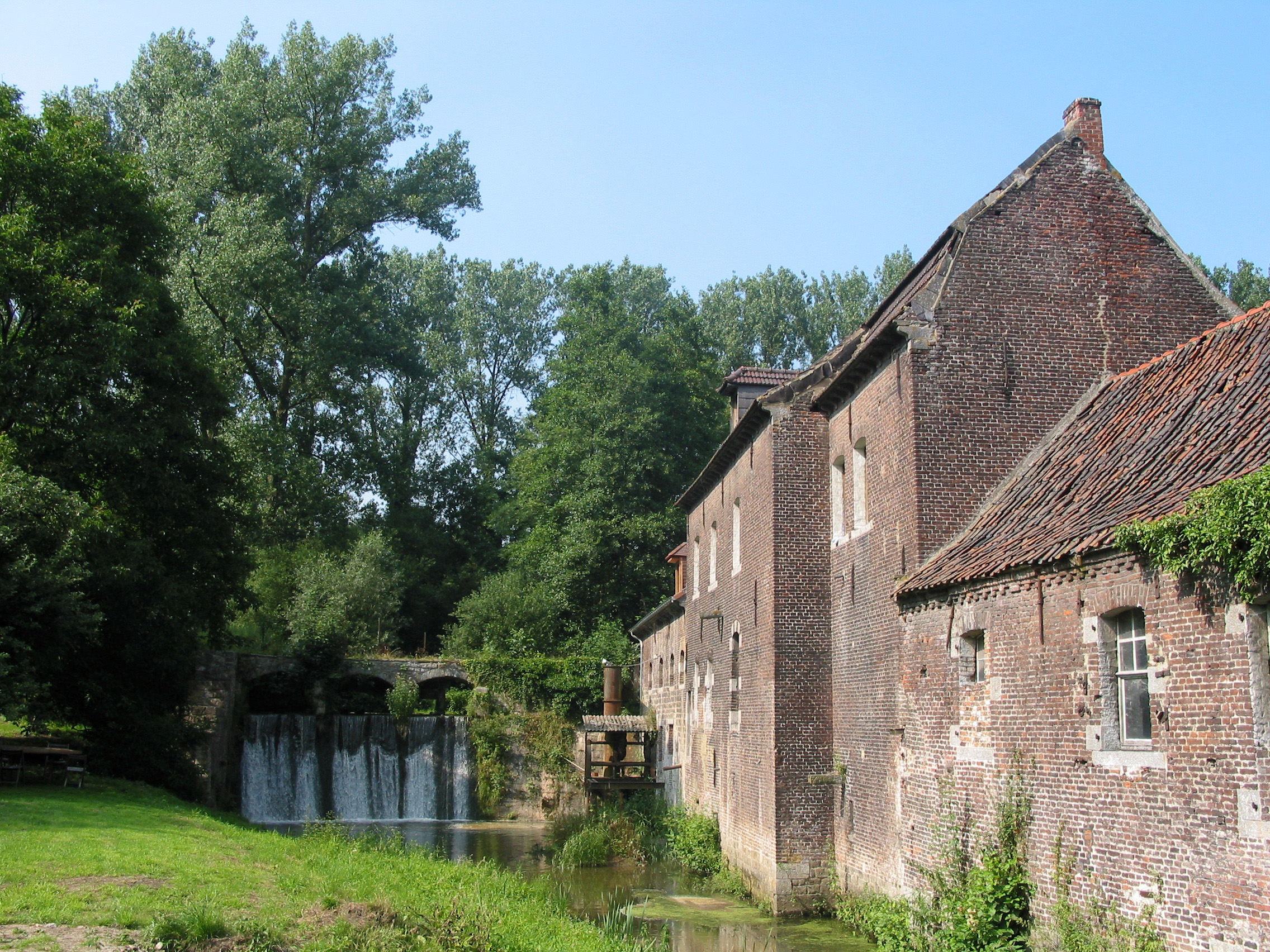 Saint-Denis (Mons) (Belgium), the old watermill ( XVIIIth century).